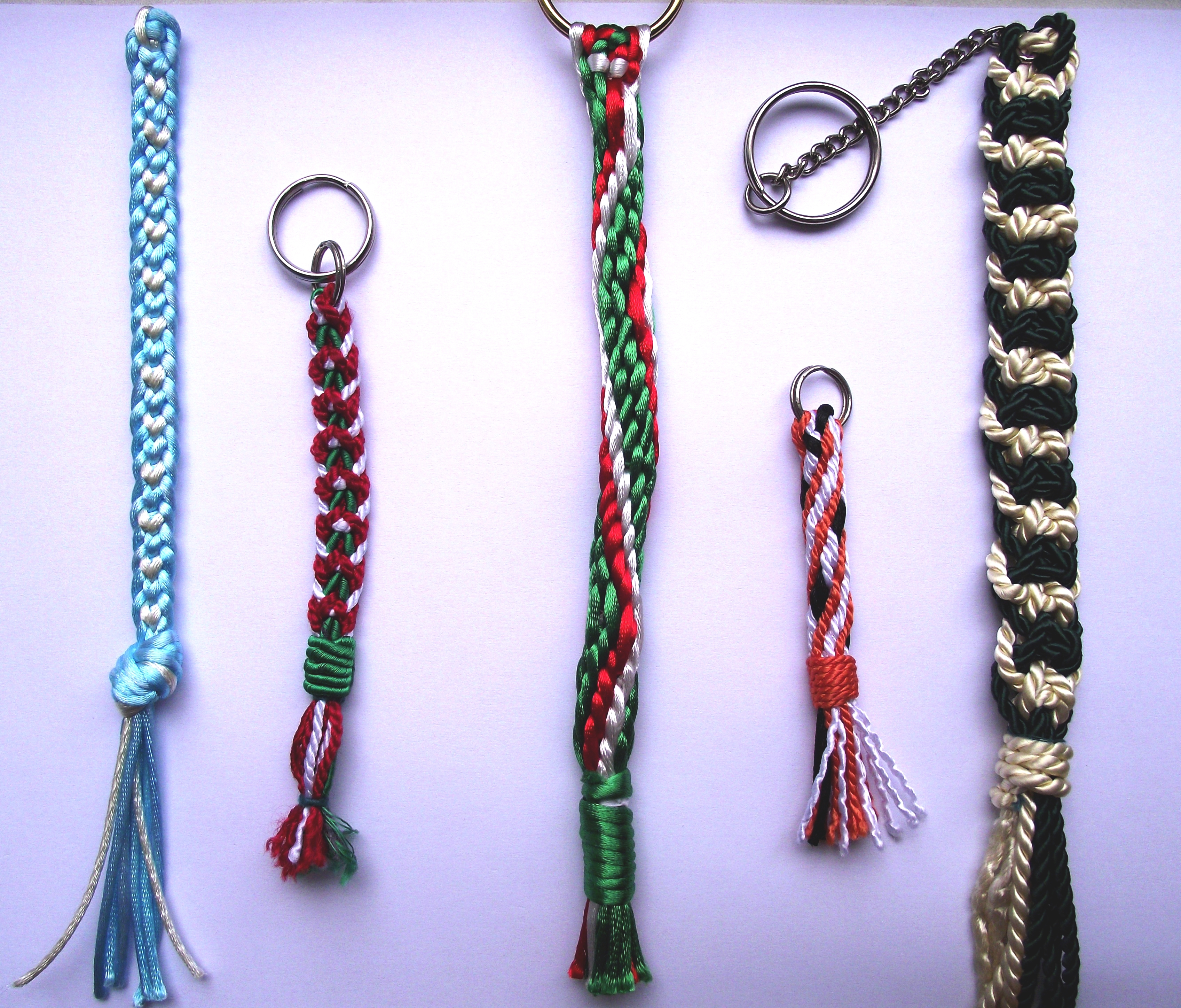 Braids in Kumihimo style